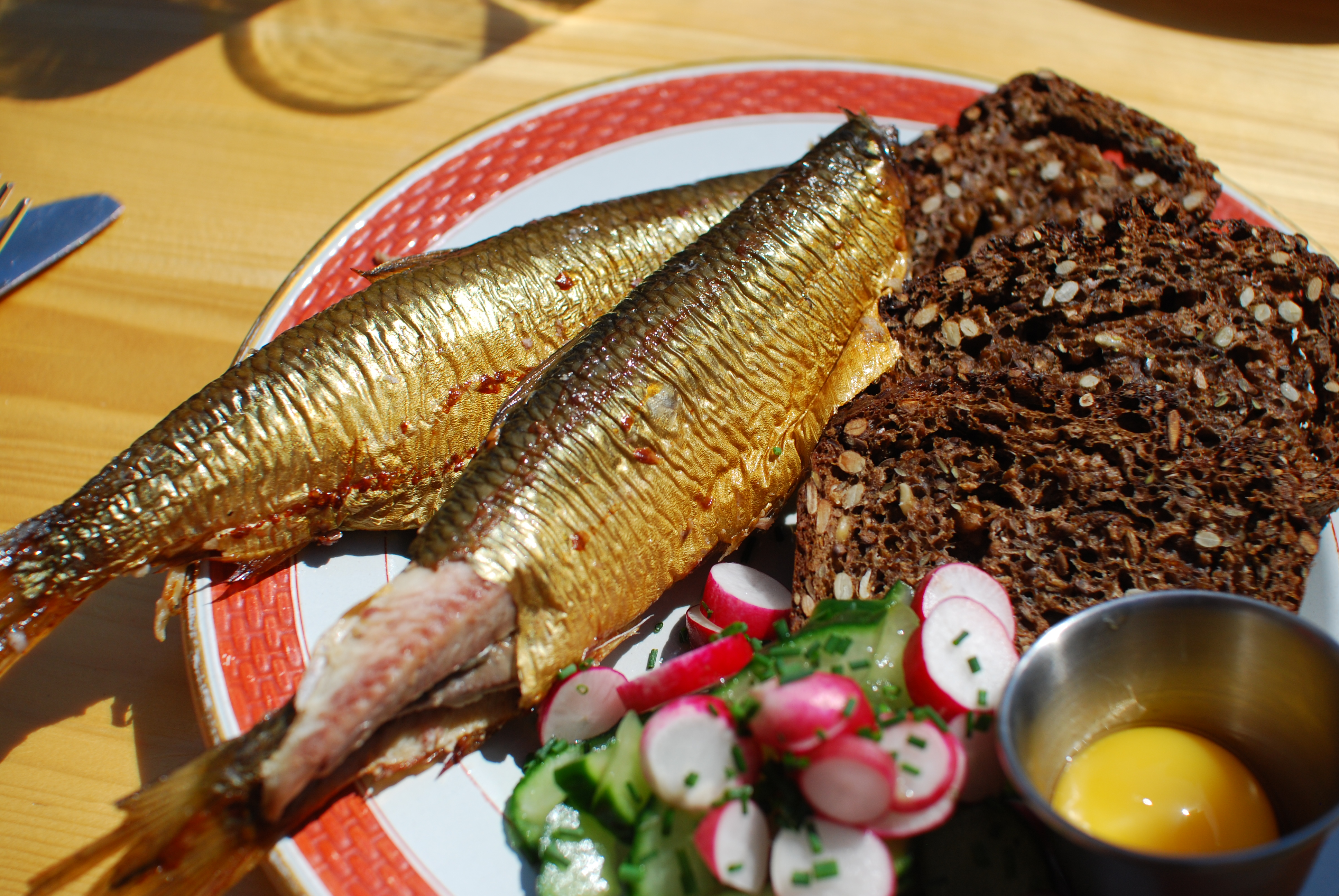 Sol over Gudhjem, en: Sun over Gudhjem: Smoked herring, chives and a raw egg yolk (the "sun") on a rye bread sandwich se: Sol över Gudhjem: Rökt sill, gräslök och en rå äggula (solen) på rågbröd ja: 薫製ニシンとチャイブと生卵の黄身にライ麦パンのサンドイッチ Cuisine: Denmark